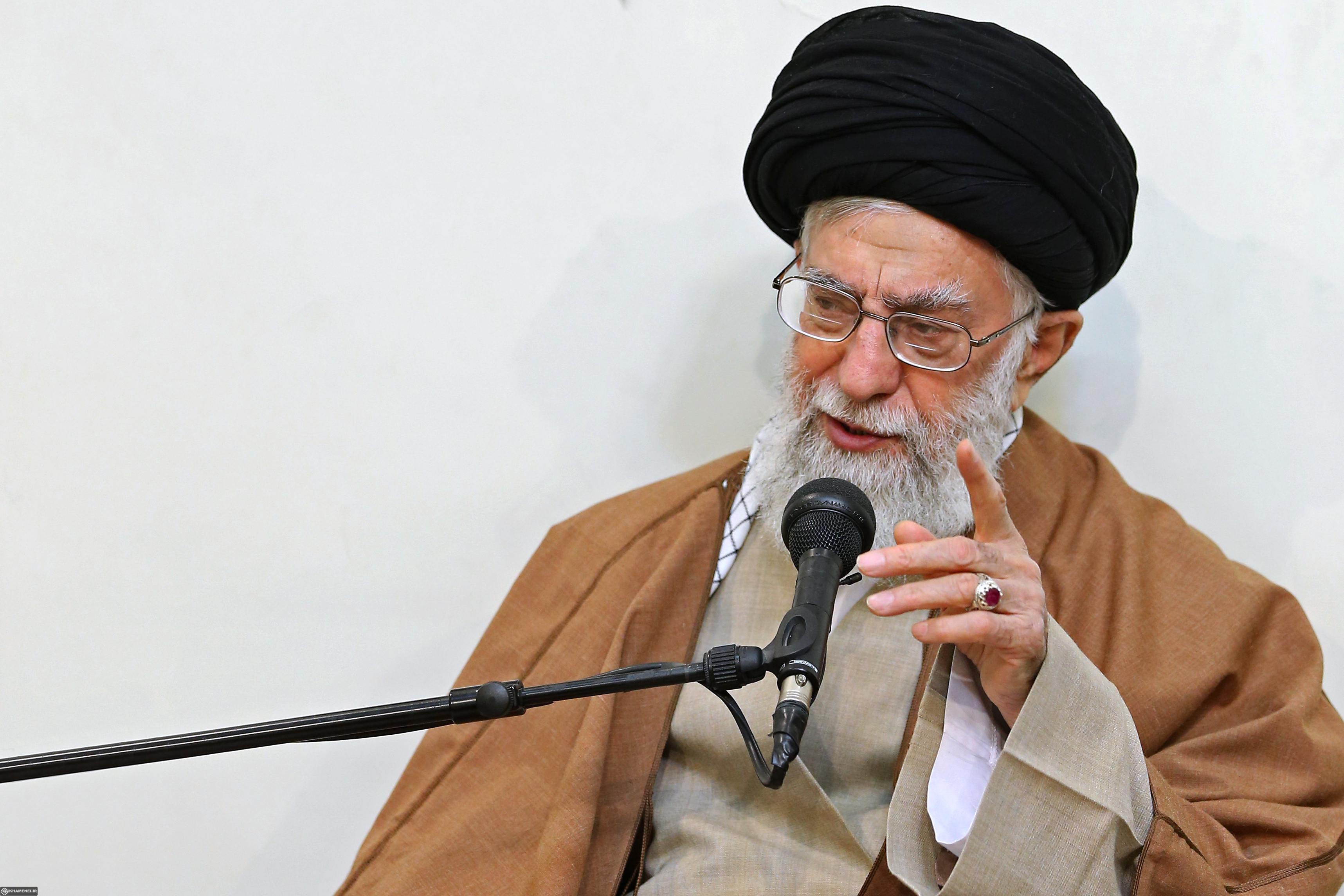 =Ali Khamenei's weekly meetings with families of martyrs - Jan 2, 2018 (13961012 0938620) Ayatollah Ali Khamenei, the Supreme Leader of Iran, in the weekly meeting with a number of families of "martyrs", afternoon Jan 2, 2018, referring to Iranian protests and "the enemies' efforts to damage the Islamic system", he stated: "What prevents the enemies and their hostile actions is the spirit of courage, self-sacrifice, and faith among the people." "In recent events, the enemies of Iran united by using different tools in their disposition, including money, weapons, politics and intelligence, in order to create problems for the Islamic system." He continued, "Regarding these events [protests], I have more to say, which I will share with dear Iranian people at the right time."